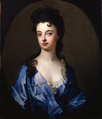 Portrait of Isabella Pierrepont, Duchess of Kingston-upon-Hull